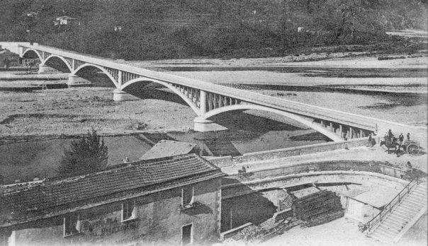 The bridge over the Magra at Caprigliola, province of Massa and Carrara, Tuscany, Italy. The bridge collapsed on 8 April 2020. Original caption 'Saluti da Bettola di Caprigliola'.